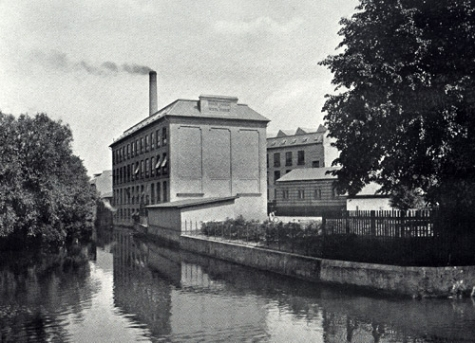 Dansk Gardin & Textil Fabrik in Kongens Lyngby, Denmark